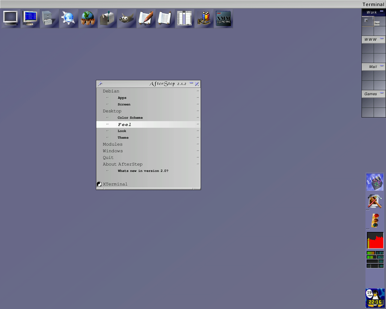 AfterStep 2.1.2